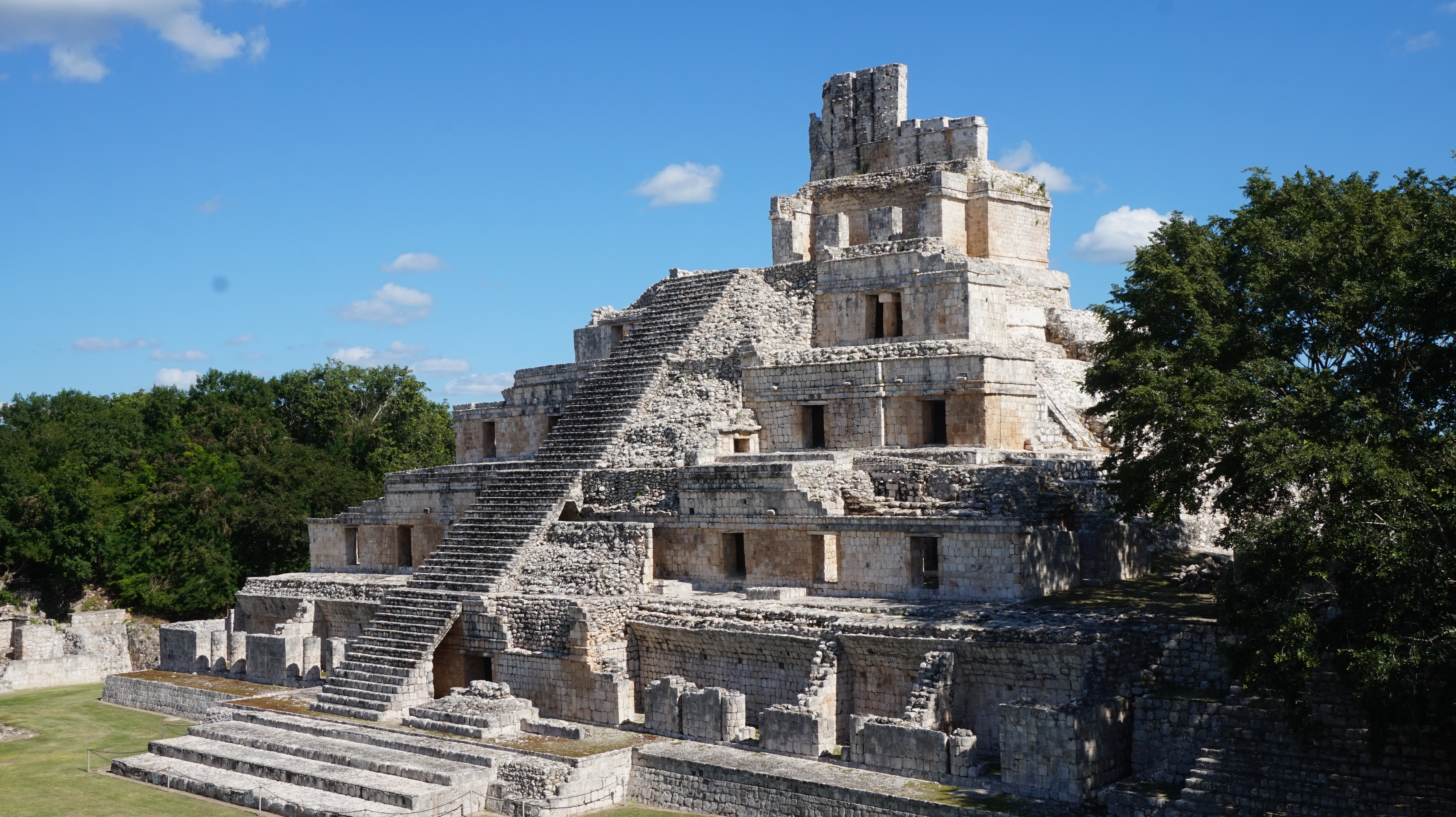 Five-Story temple in Edzna